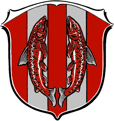 granted 23 August 1926, adopted 31 August 1926